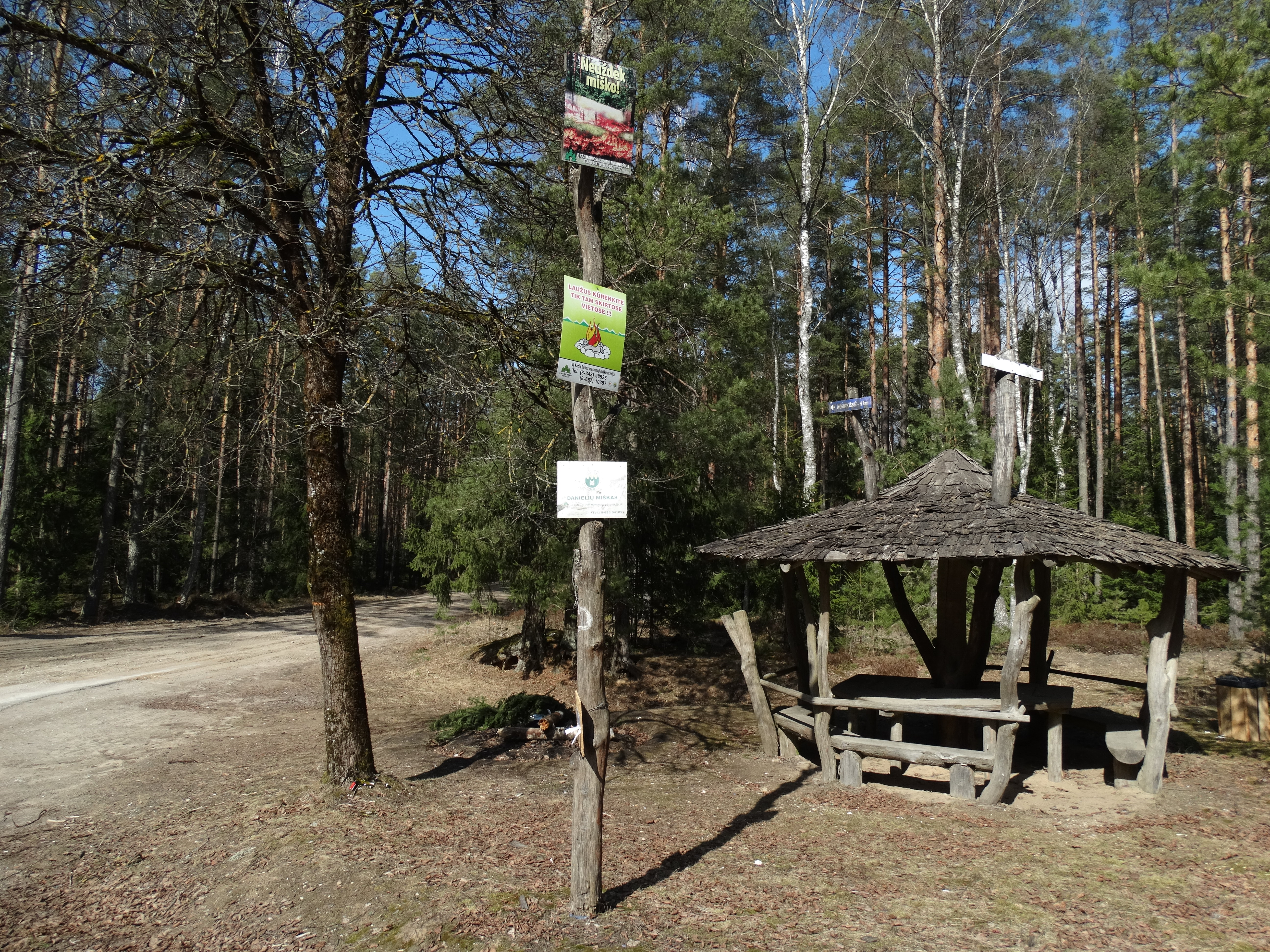 Kazlų Rūda woods, Lithuania